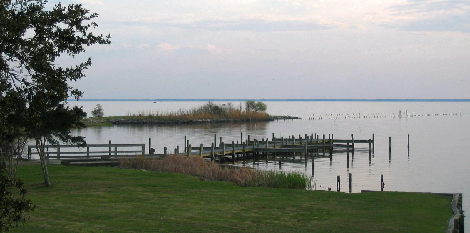 Photo of Currituck Sound taken by me from the Whalehead Club, Corolla, North Carolina.